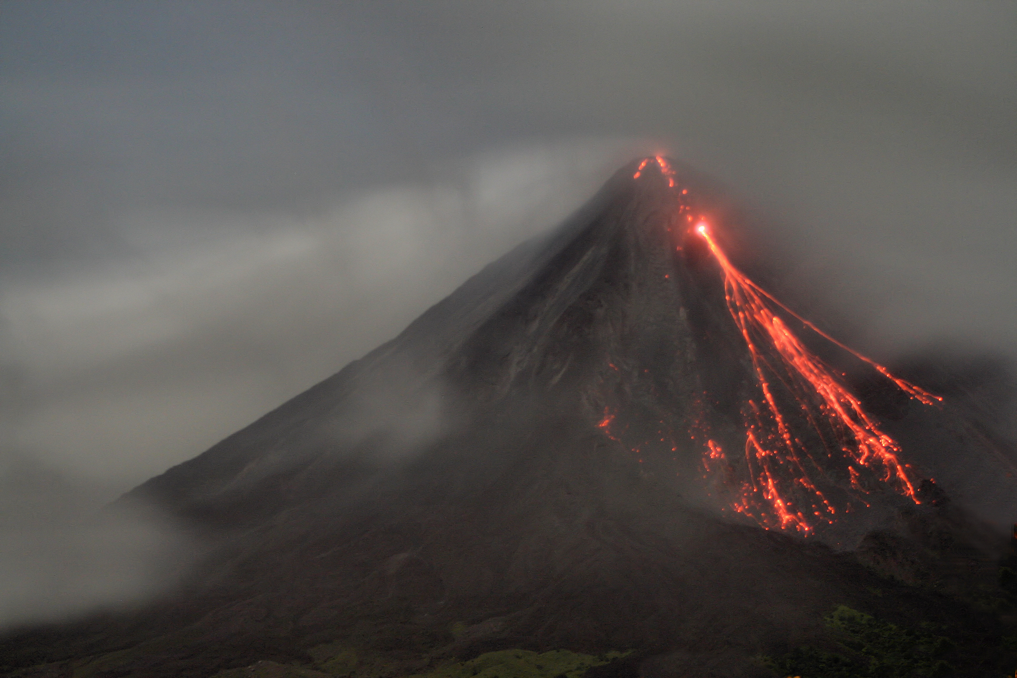 Arenal Vulcano at night, Costa RicaLong exposure night shot. Sitting on the deck at the lodge having a brew, and watching the volcano.Arenal